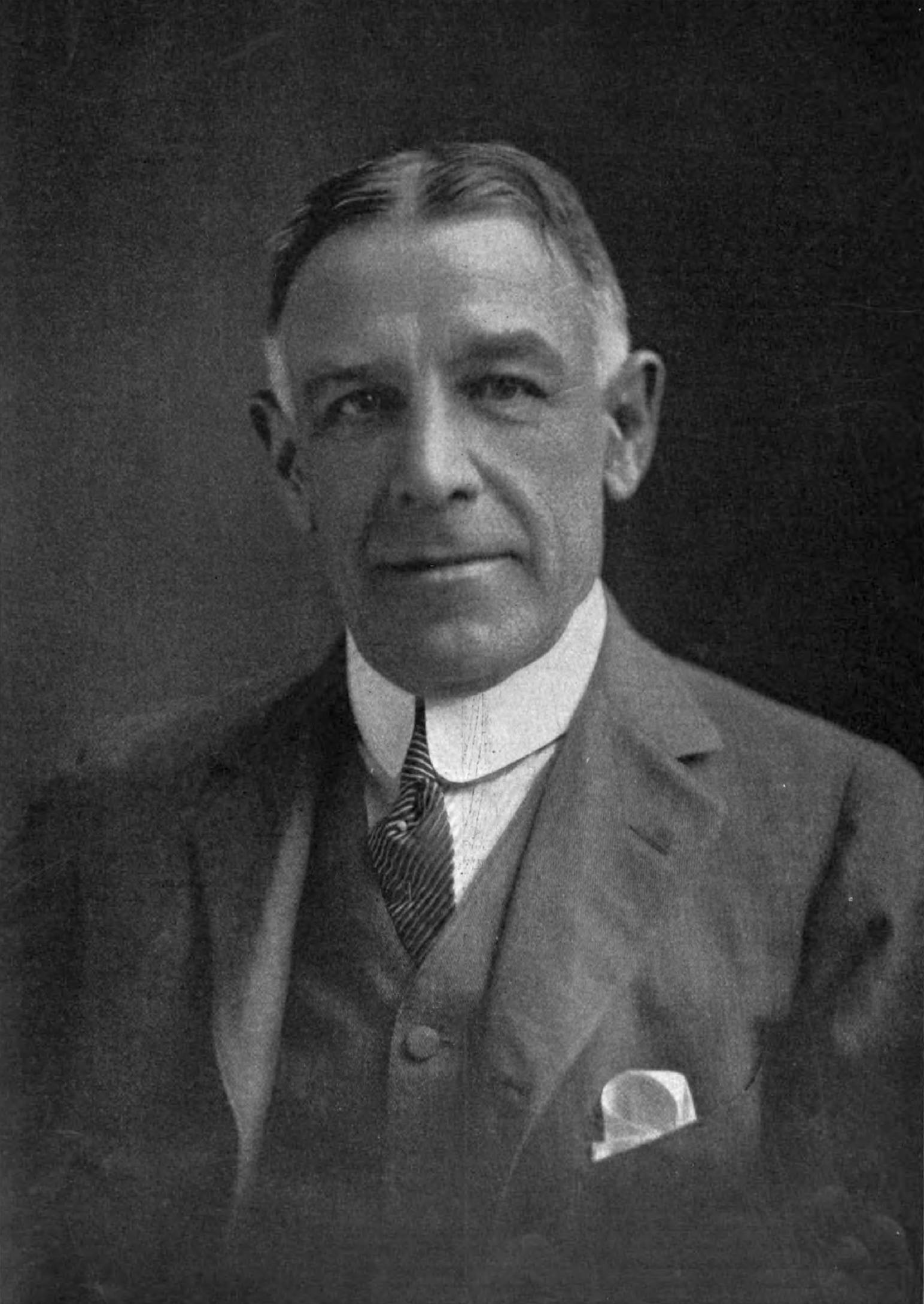 Edward Bok, Editor of the Ladies' Home Journal